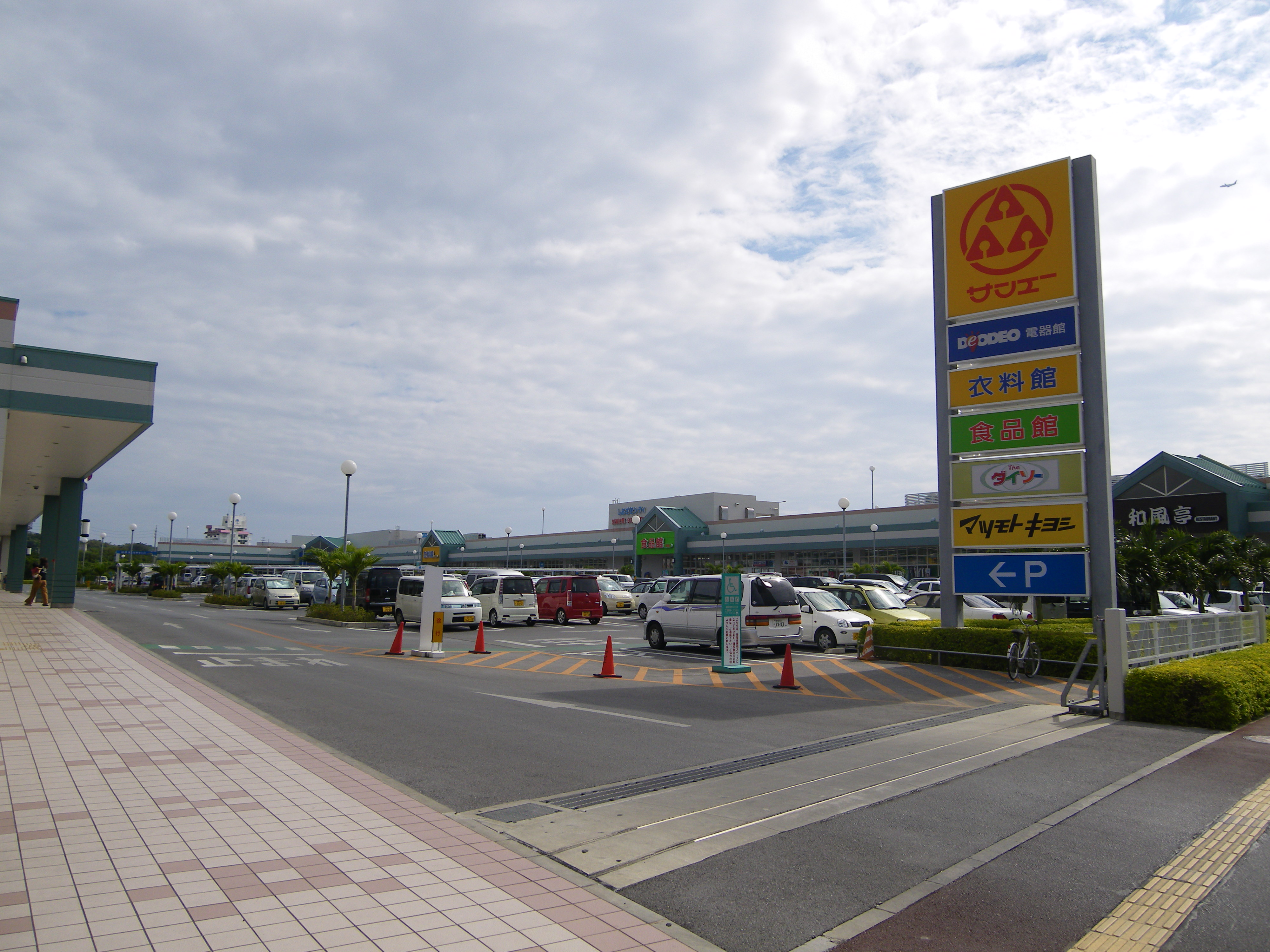 The building of the SAN-A's Shopping Center in Shiozaki, Itoman, Okinawa Prefecture, Japan